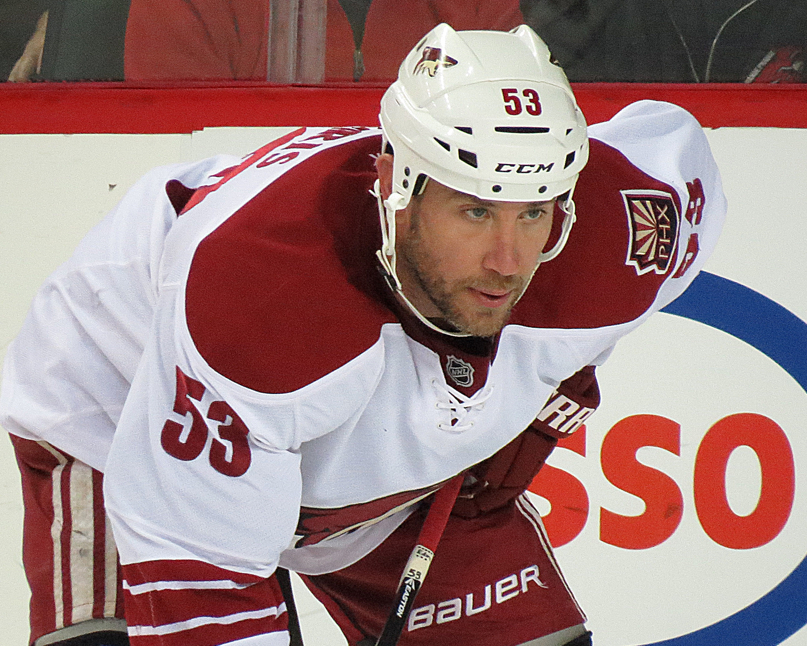 Derek Morris with the Phoenix Coyotes during the 2013–14 season.